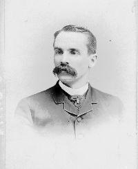 Merrill Edwards Gates (1848-1922)